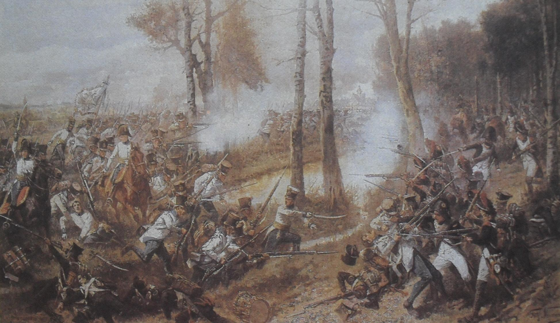 The charge of the 19th Hungarian infantry regiment in the Battle of Leipzig (1813) againts the Frenchs